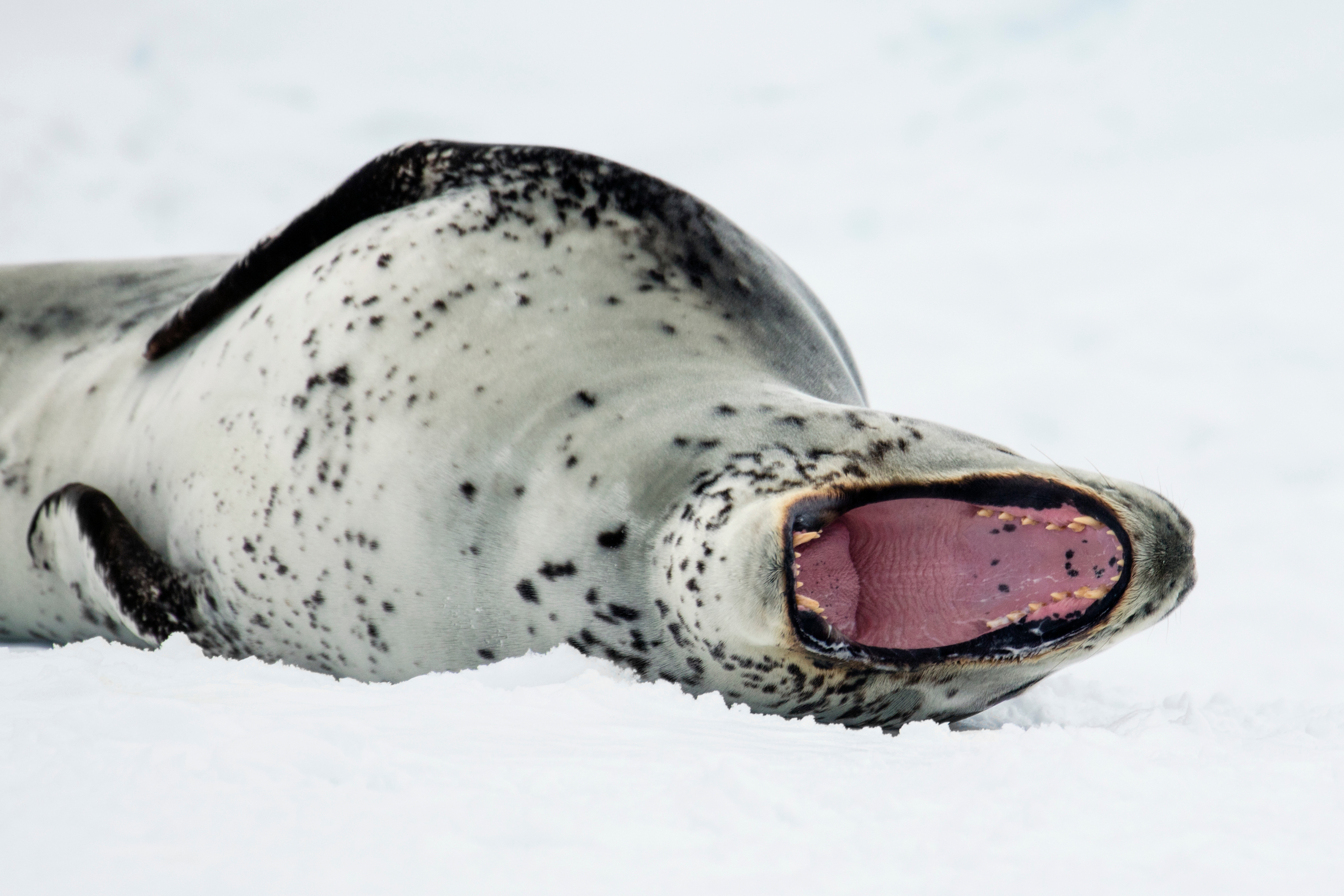 Leopard seal (Hydrurga leptonyx), Antarctic Sound, near Brown Bluff, Tabarin Peninsula